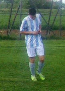 Christian Talevski at FK Rabotnik Bitola.